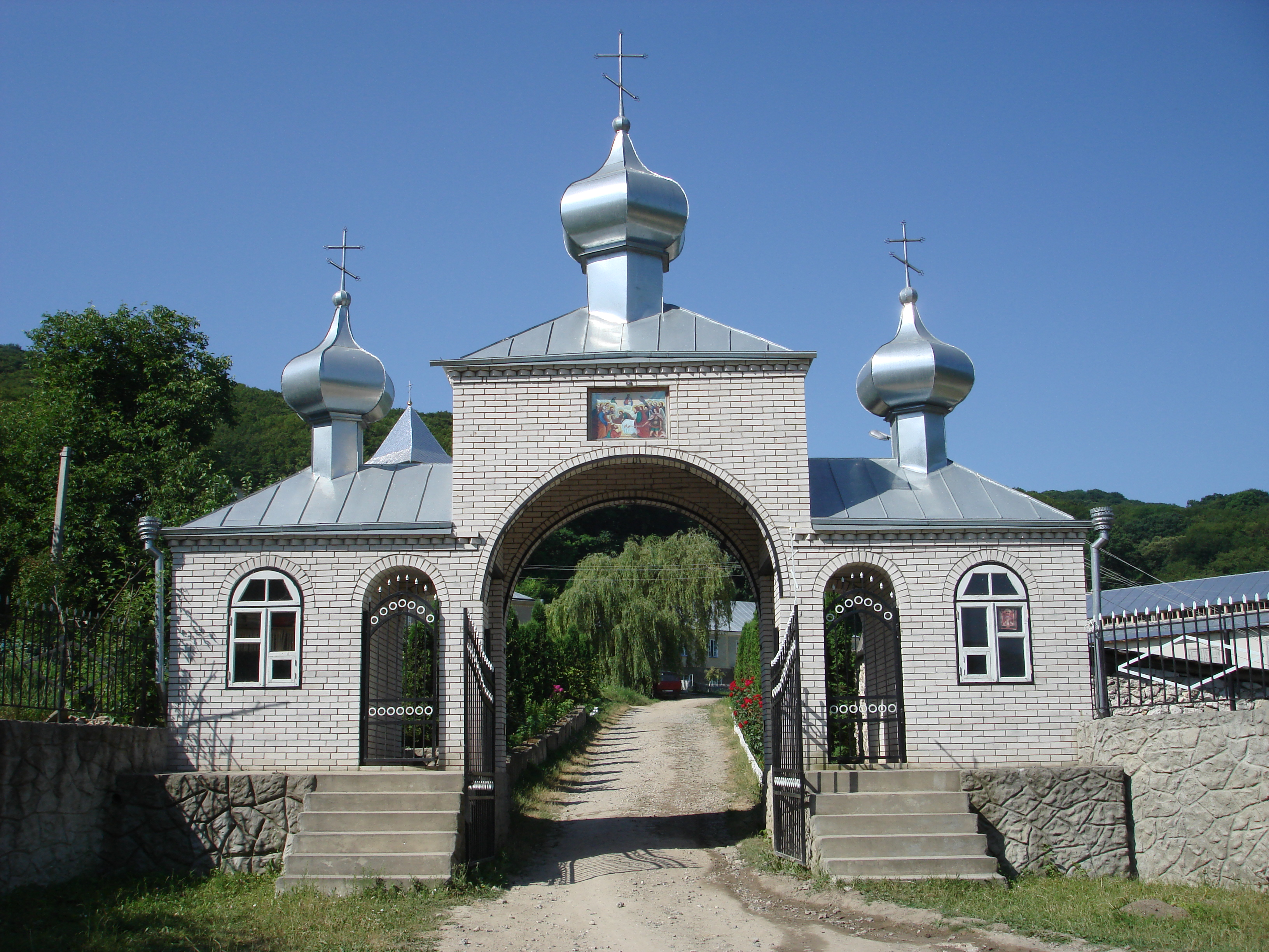 Călărăşeuca monastery, Moldova